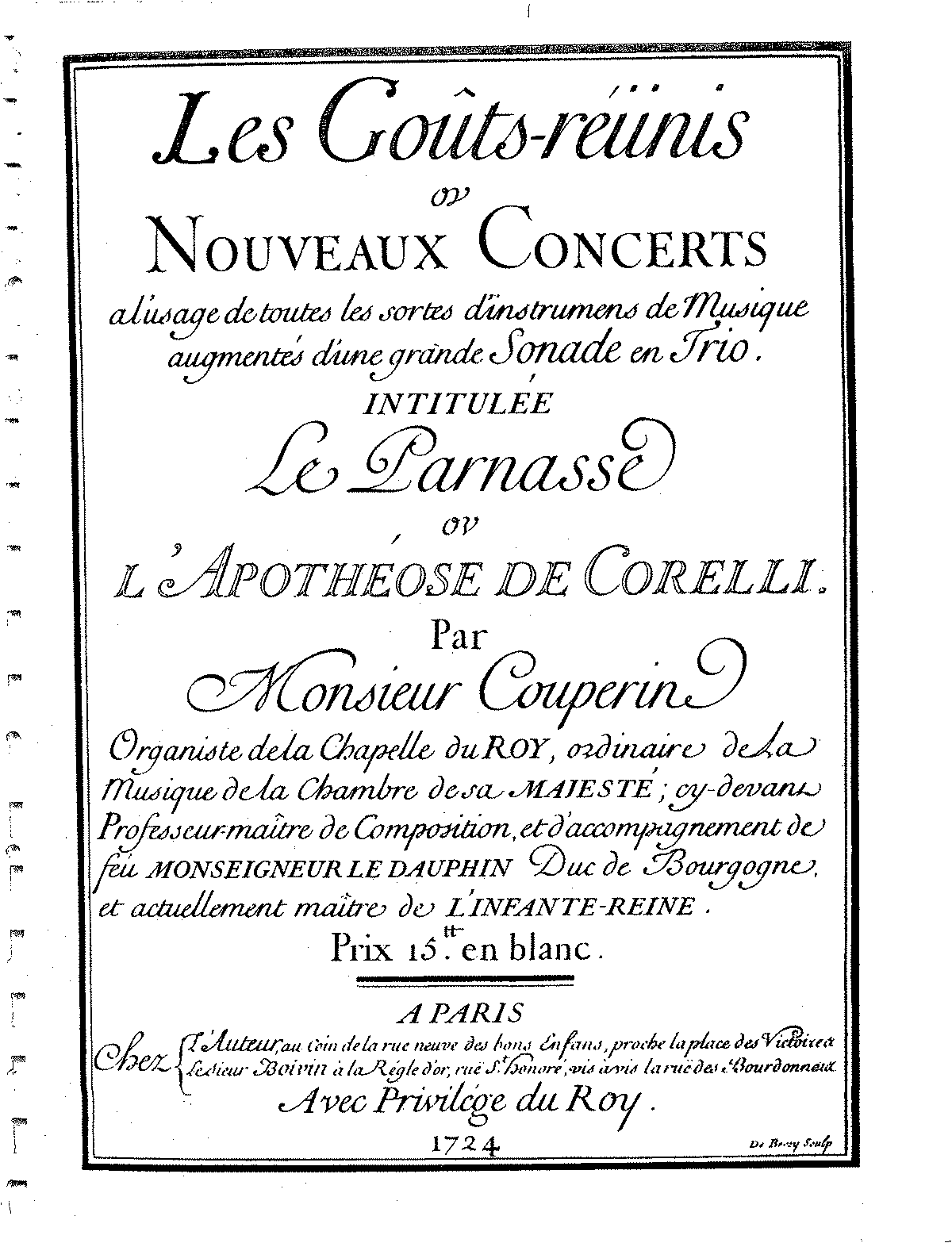 Title page of Nouveaux Concerts by François Couperin